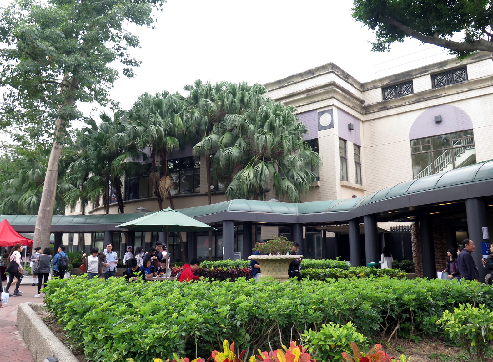 Castle Peak Hospital Block C